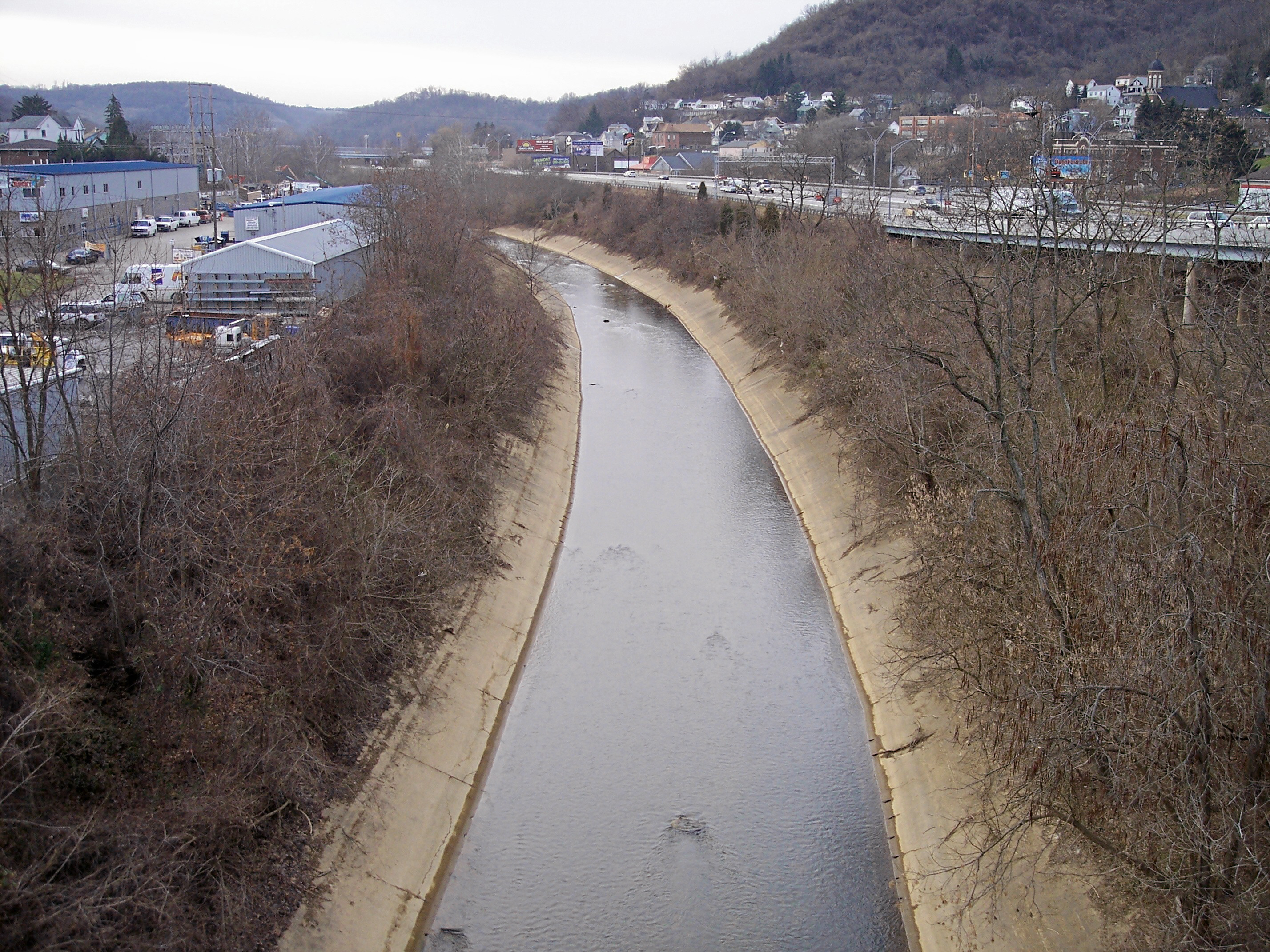 Wheeling Creek as viewed upstream from Marion Street in Bridgeport, Ohio. Interstate 70 is at right.